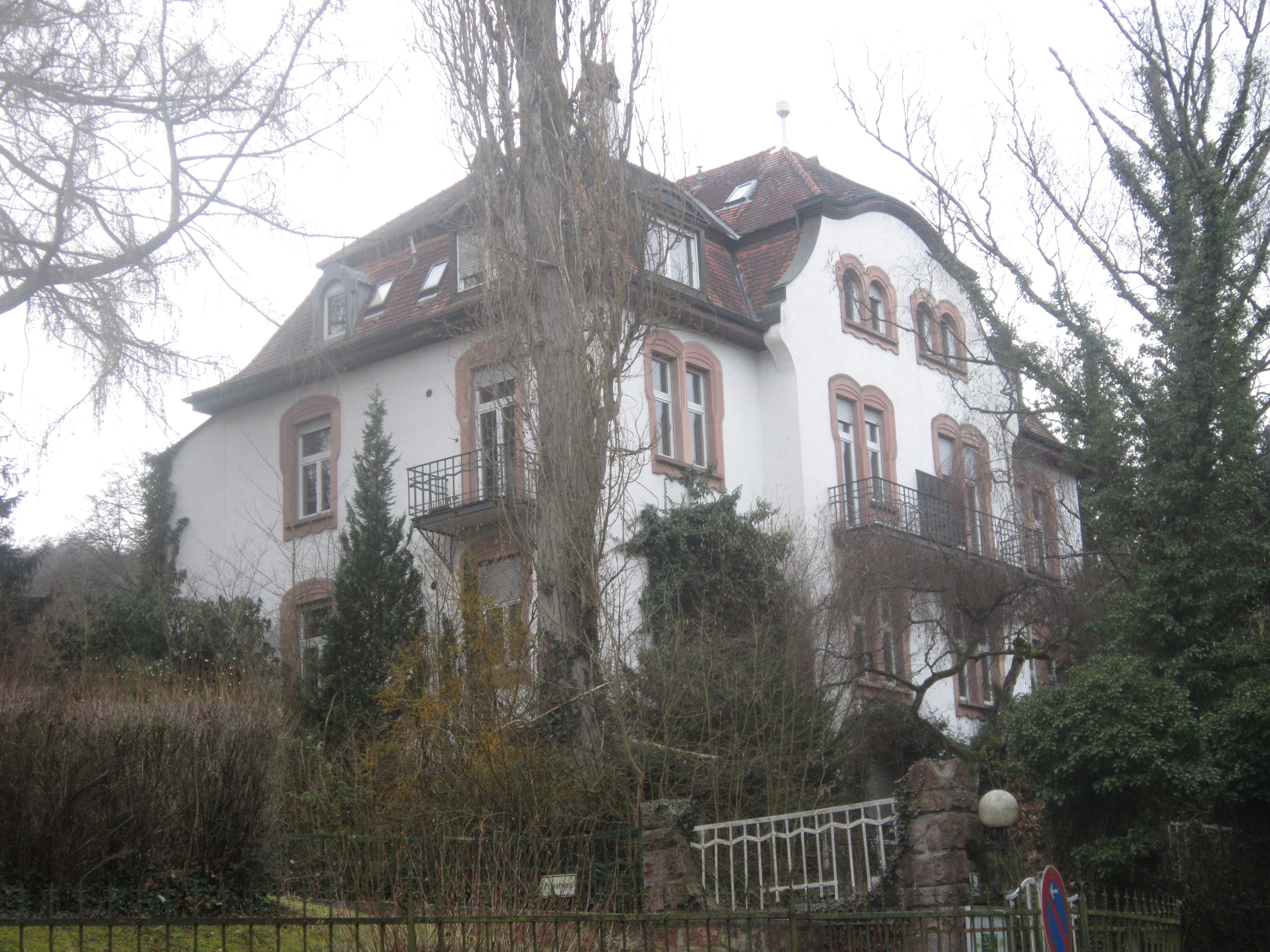 Building in the German spa town of Bad Kissingen in Lower Franconia (Bavaria) (Address: Rosenstraße 10).